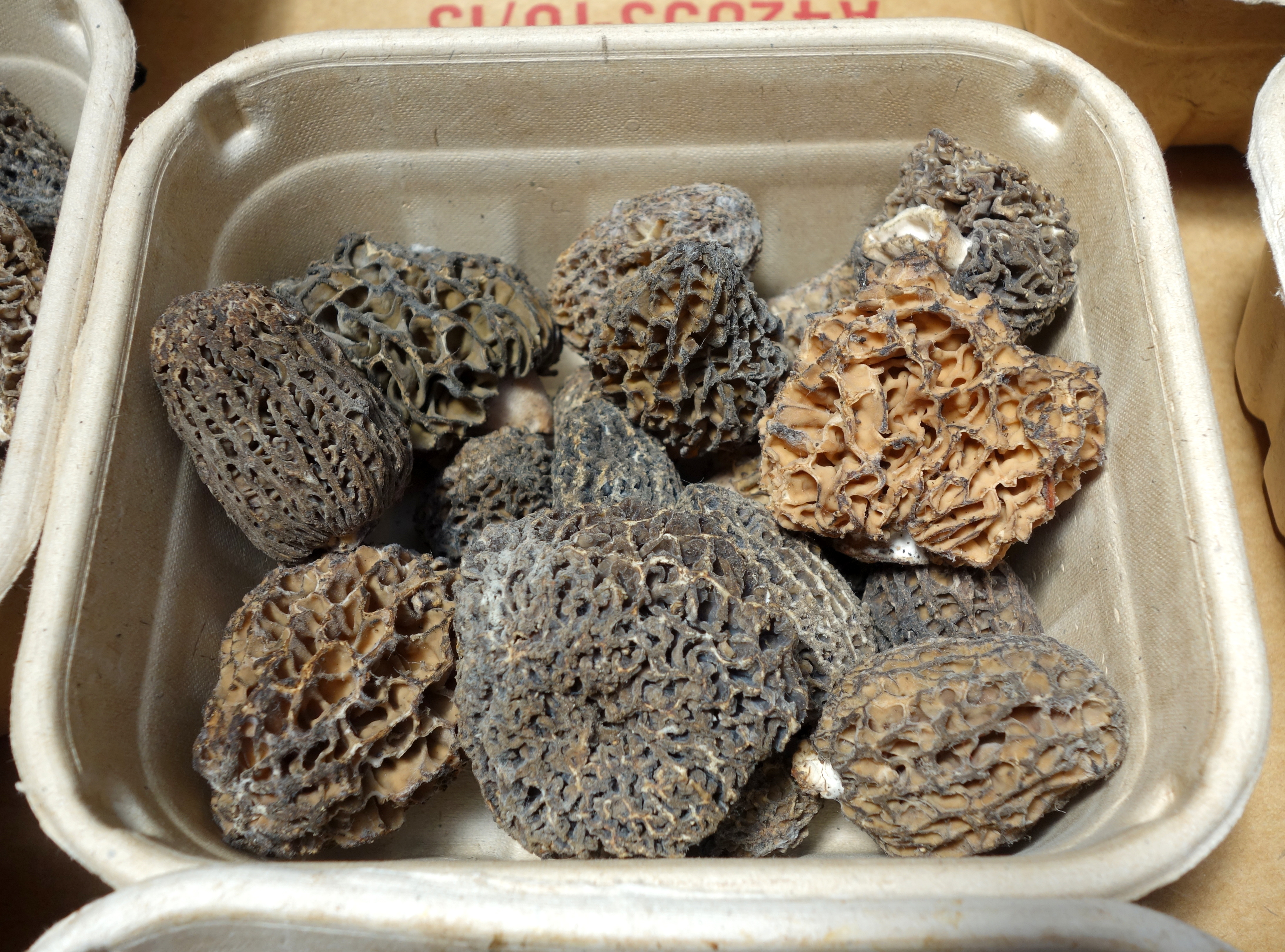 Farmer's Market at the Ferry Building - San Francisco, California, USA.